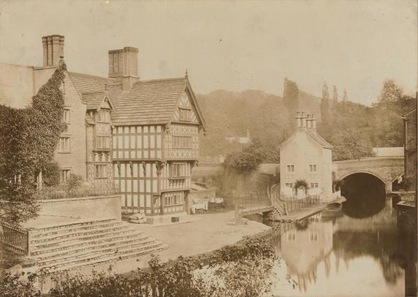 The Packet House in Worsley, a Grade II listed building, dates from the eighteenth century. It was from the steps at the front of the house, in the left corner of this photograph, that those wishing to travel on the Bridgewater Canal would board their vessel, after buying their ticket at the Packet House. Passenger services started on the Canal in 1769 and by 1781 there was a daily service between Manchester and Worsley.